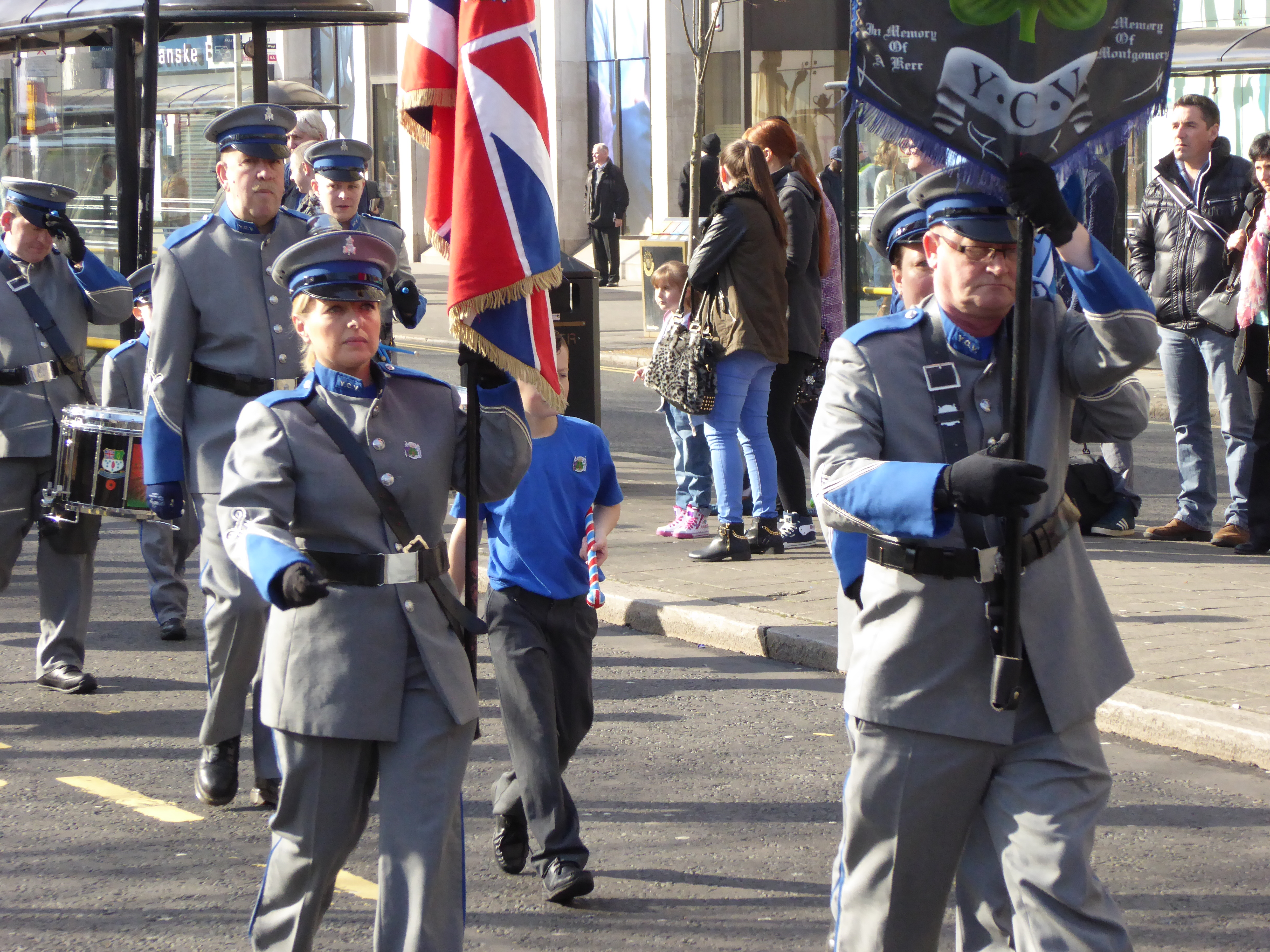 Apprentice Boys of Derry parade to the Cenataph, Belfast City Hall, Belfast, April 2015 (in Donegall Square West)